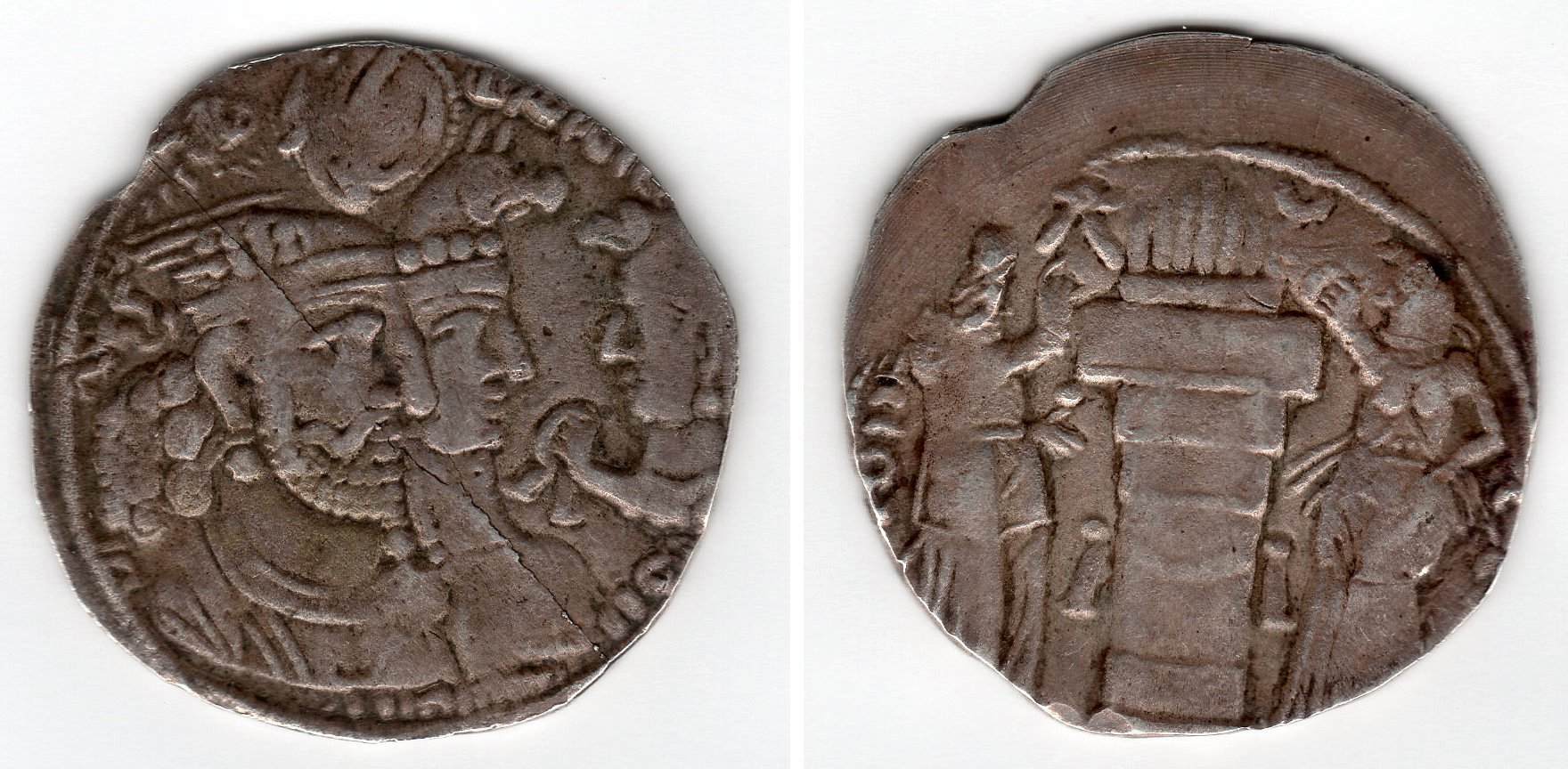 Sasanian empire 1 drachma silver coin showing on its front side the Sasanian king Bahram II, his queen, and either a prince or God Verethragna. The King wears his typical winged crown, above which one can see his typical spheric hairdress (Korymbos). The queen wears an animal formed crown with either a boar or a griffin. Facing the royal couple, a smaller character wearing an eagle head form crown gives them a ribboned ring of power (Farshiang or Cydaris). A semi erased Pehlevi inscription is seen around them: "Worshipping Mazda, the divine Bahram, king of kings of Iran, who is beloved by the gods". On the reverse side, a fire burns on an altar from which 2 ribbons are flowing down, between 2 characters: on the left, the king with his sword makes the typical sasanian tribute gesture with his hand, a ribonned ring of power above him. On the right side of the altar, a female character is seen, holding a ring, who might be either the queen or more probably the goddess Anahita (only a divinity can get a tribute salutation from the king). Above this character, a moon crescent. The mint is uncertain, coin was made during Bahram II's reign (276-293 CE)